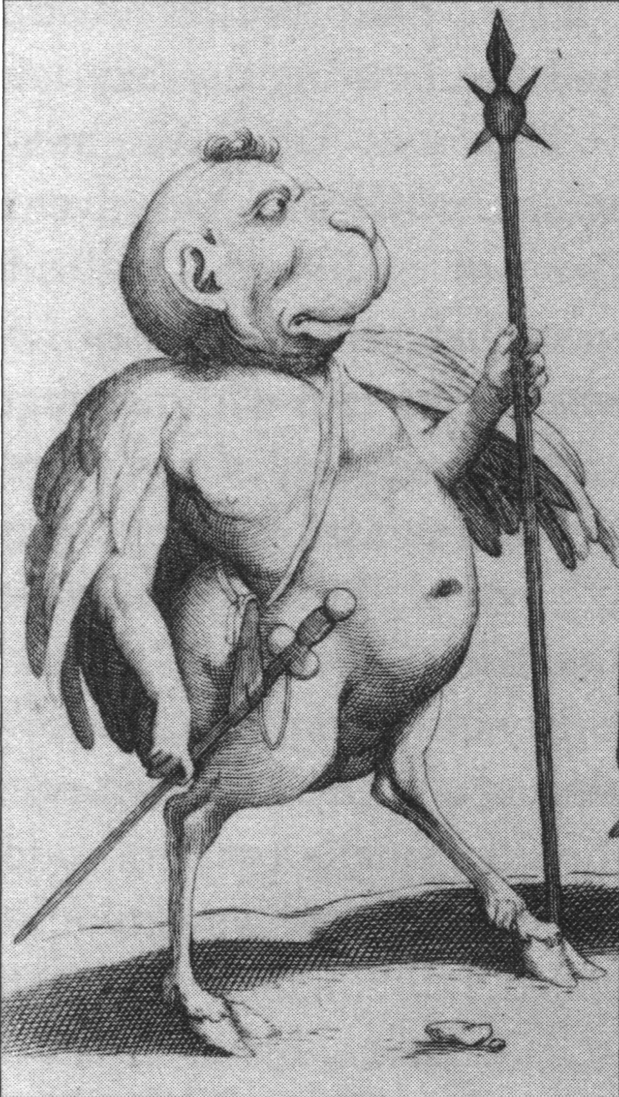 Marina Warner Mole Illustration from 'No Go the Bogeyman Asura's Wrath'